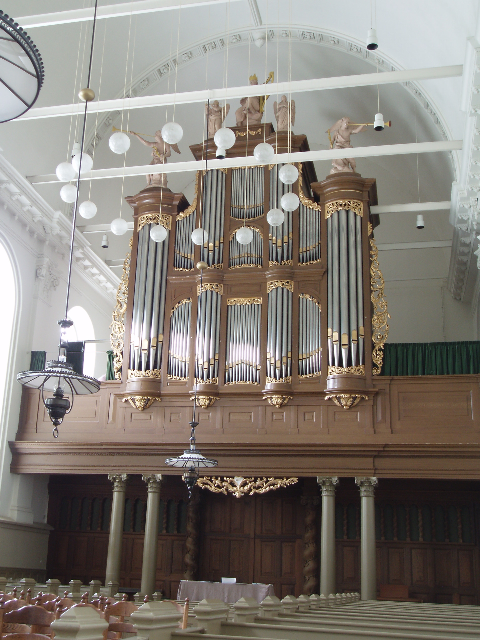 Willem Hardorff 1861